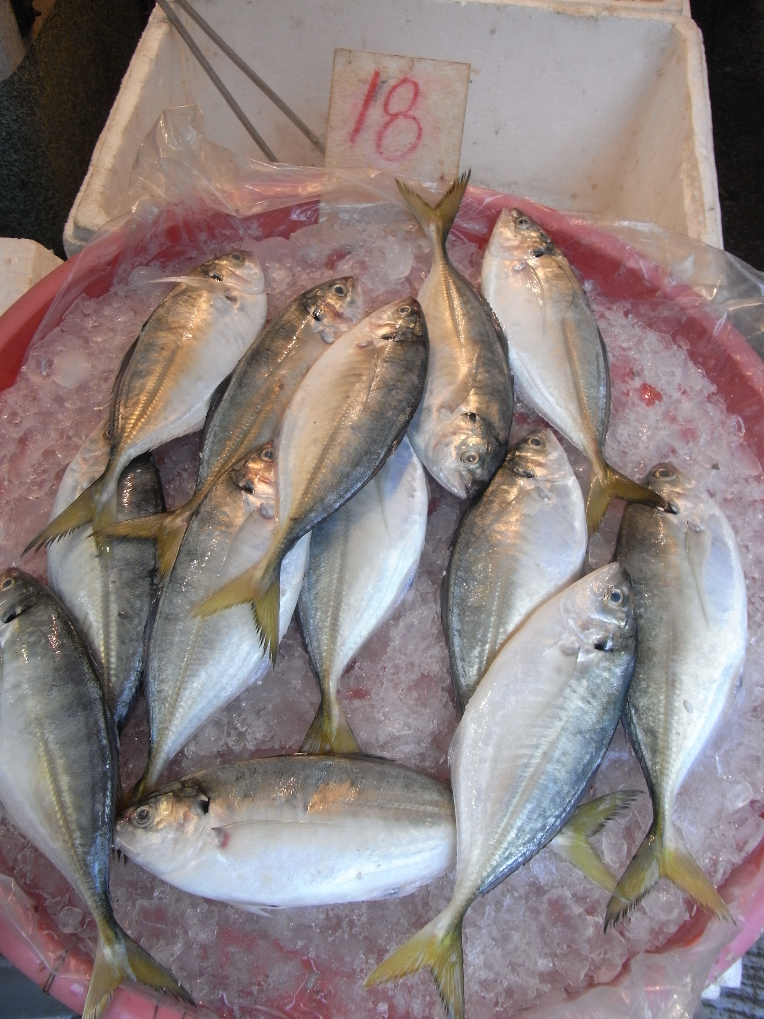 油麻地 海鮮魚仔生料